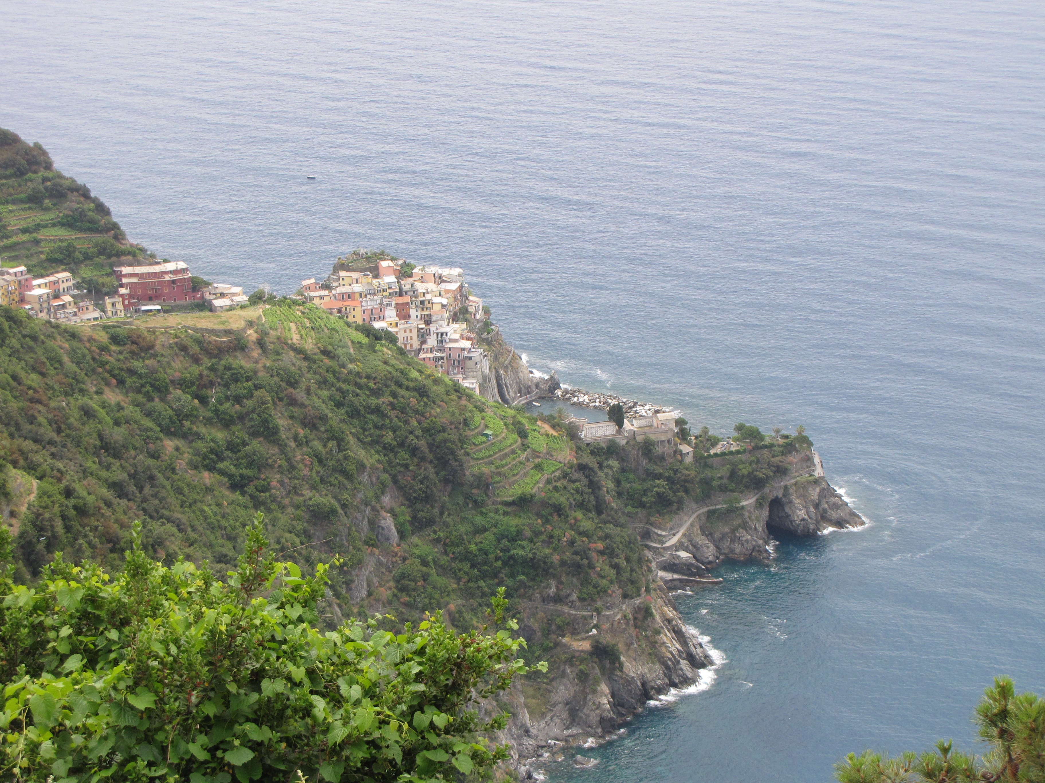 The village Corniglia, Cinque Terre.